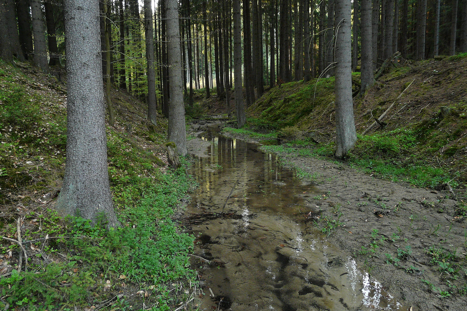 Mukařovský stream